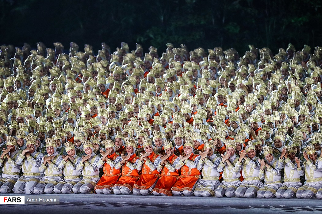 2018 Asian Games opening ceremony